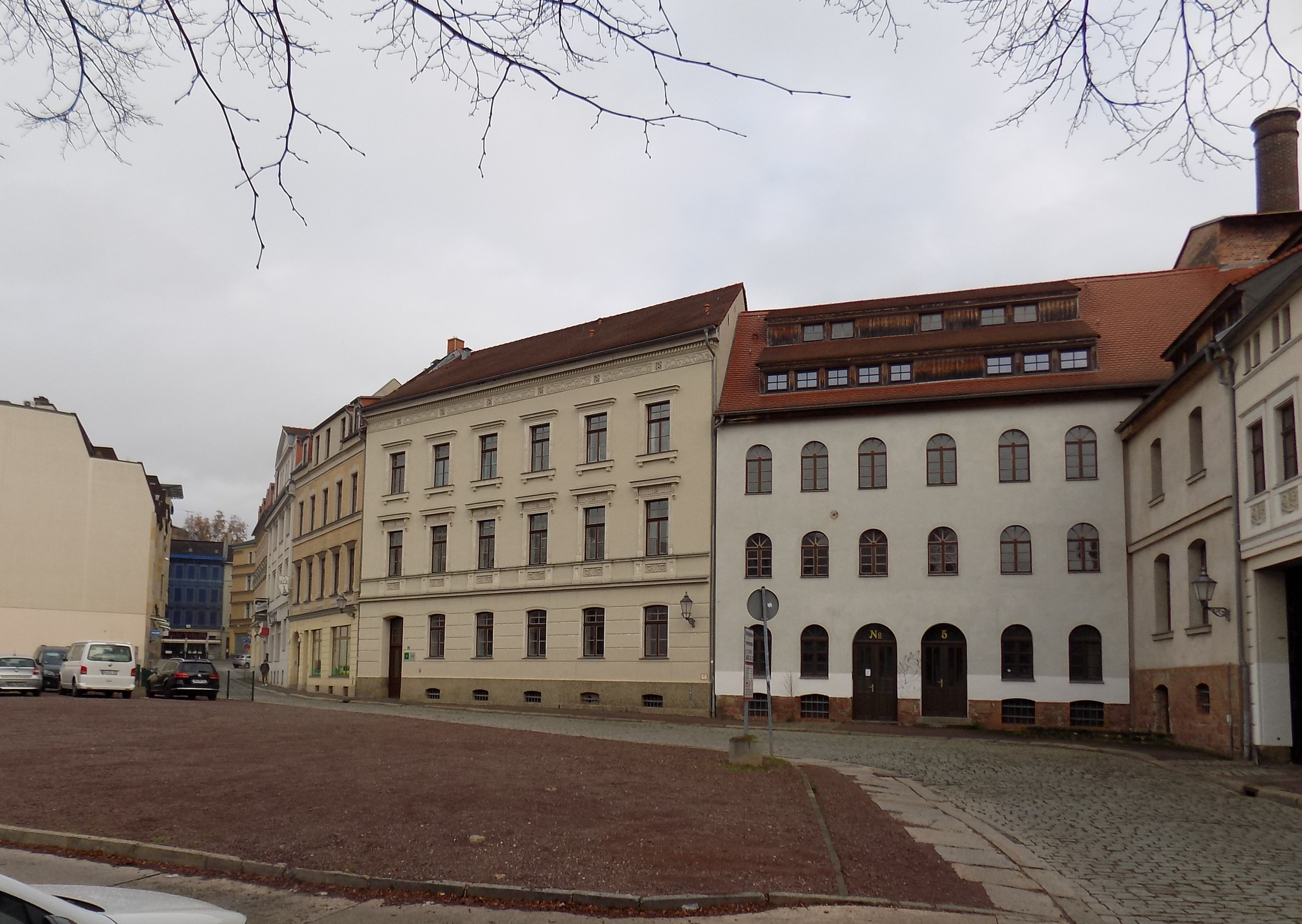 Grosse Brauhausstrasse in Halle/Saale (Saxony-Anhalt)